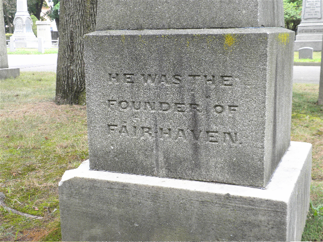 Inscription on grave of Herman Hitchkiss, Fair Haven Union Cemetery